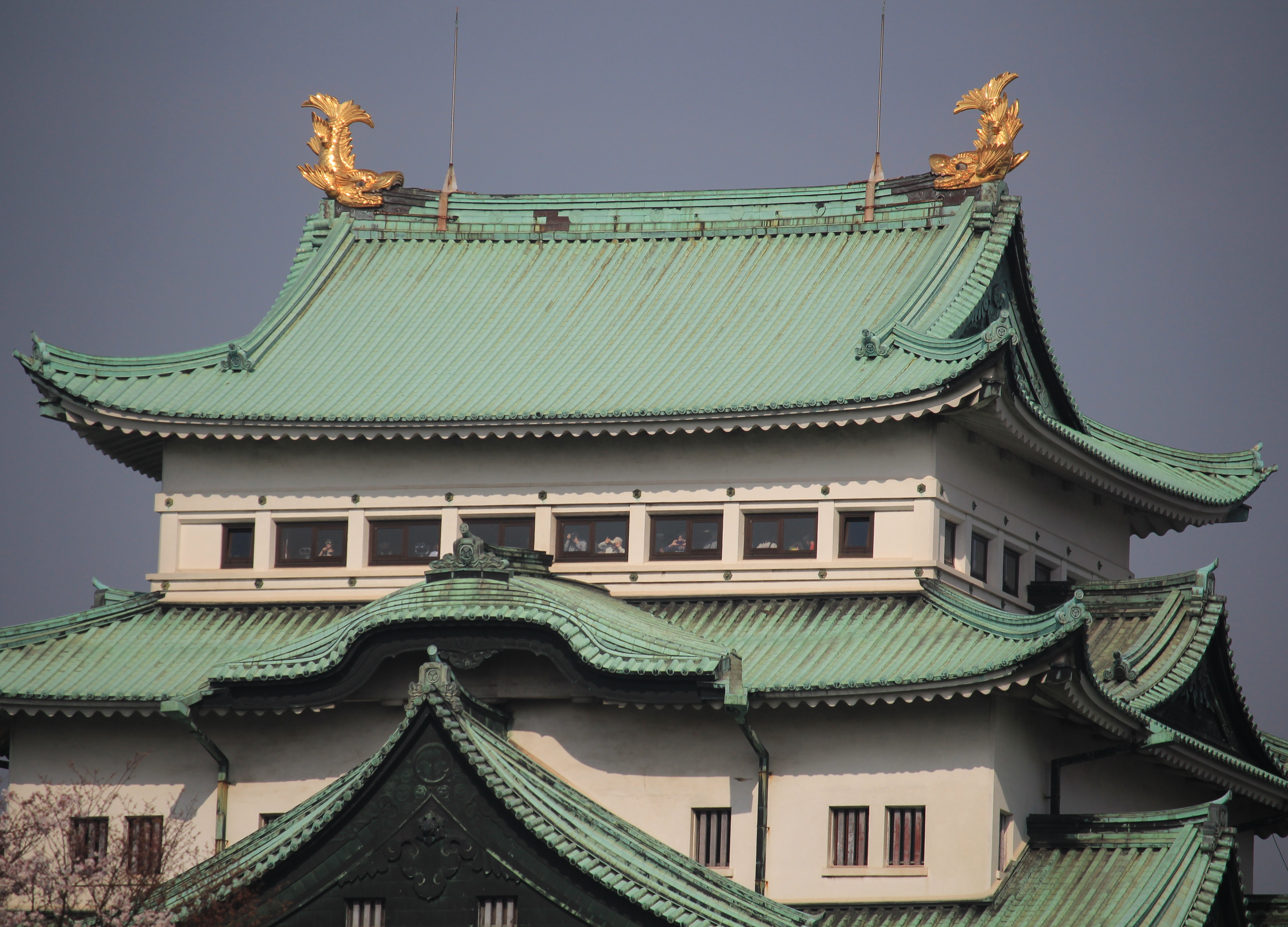 Kinshachi of Nagoya Castle in Nagoya, Aichi prefecture, Japan.